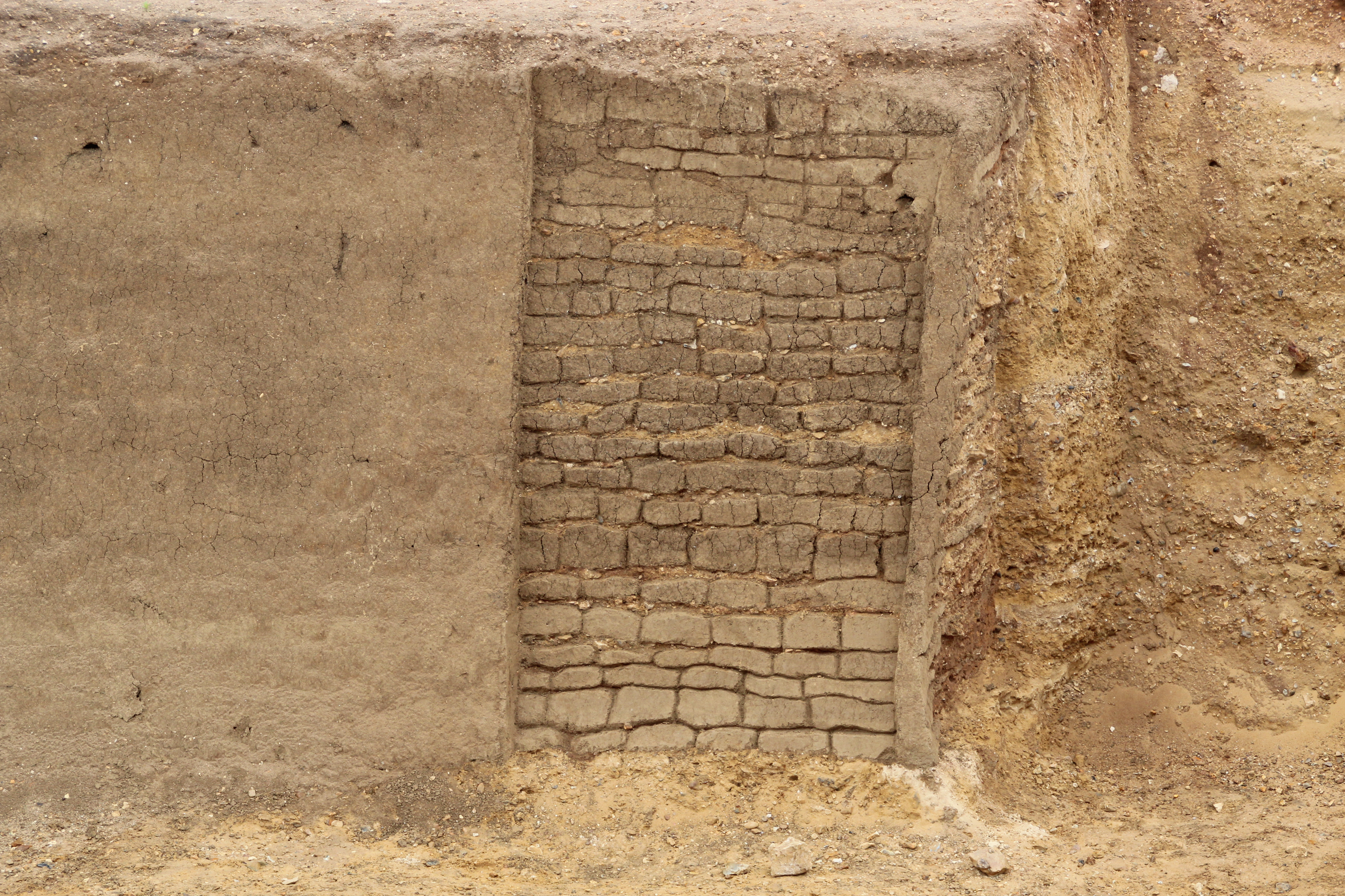 The Fort St. Sebastian was a fort for the training of the armies of Louis XIV for siege warfare (defending and taking strongholds). It was used for two years (1669 and 1670) and then leveled.